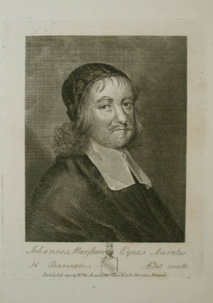 Johannes Marsham Eques Auratus, copper engraving of Sir John Marsham 1602-1685) published 1810 by W. Richardson of London